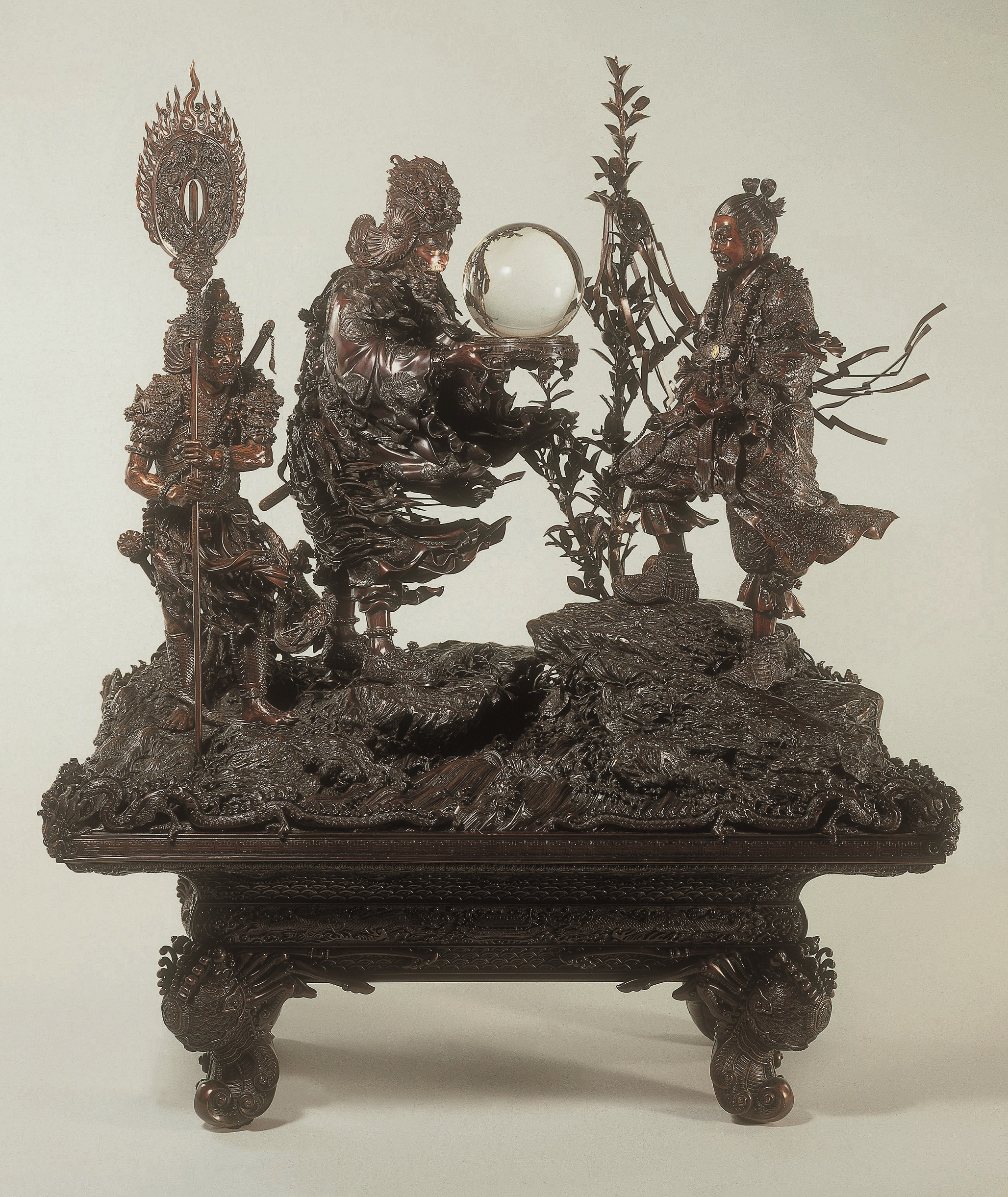 Mythical Group in the Khalili Collection of Japanese Meiji Art. Japan after 1881. Described at and in J. Earle, Splendors of Imperial Japan: Arts of the Meiji period from the Khalili Collection, London 2002, cat. 139, pp. 200–3.